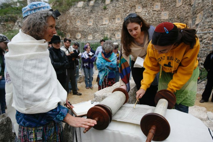 Women of the Wall at a Torah reading in Robinson's Arch, Rosh Chodesh